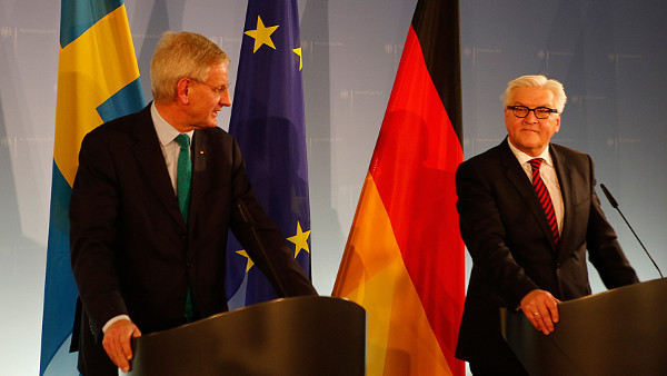 Carl Bildt, Swedish foreign minister, along with his German counterpart Frank-Walter Steinmeier, were at a press conference in Berlin.